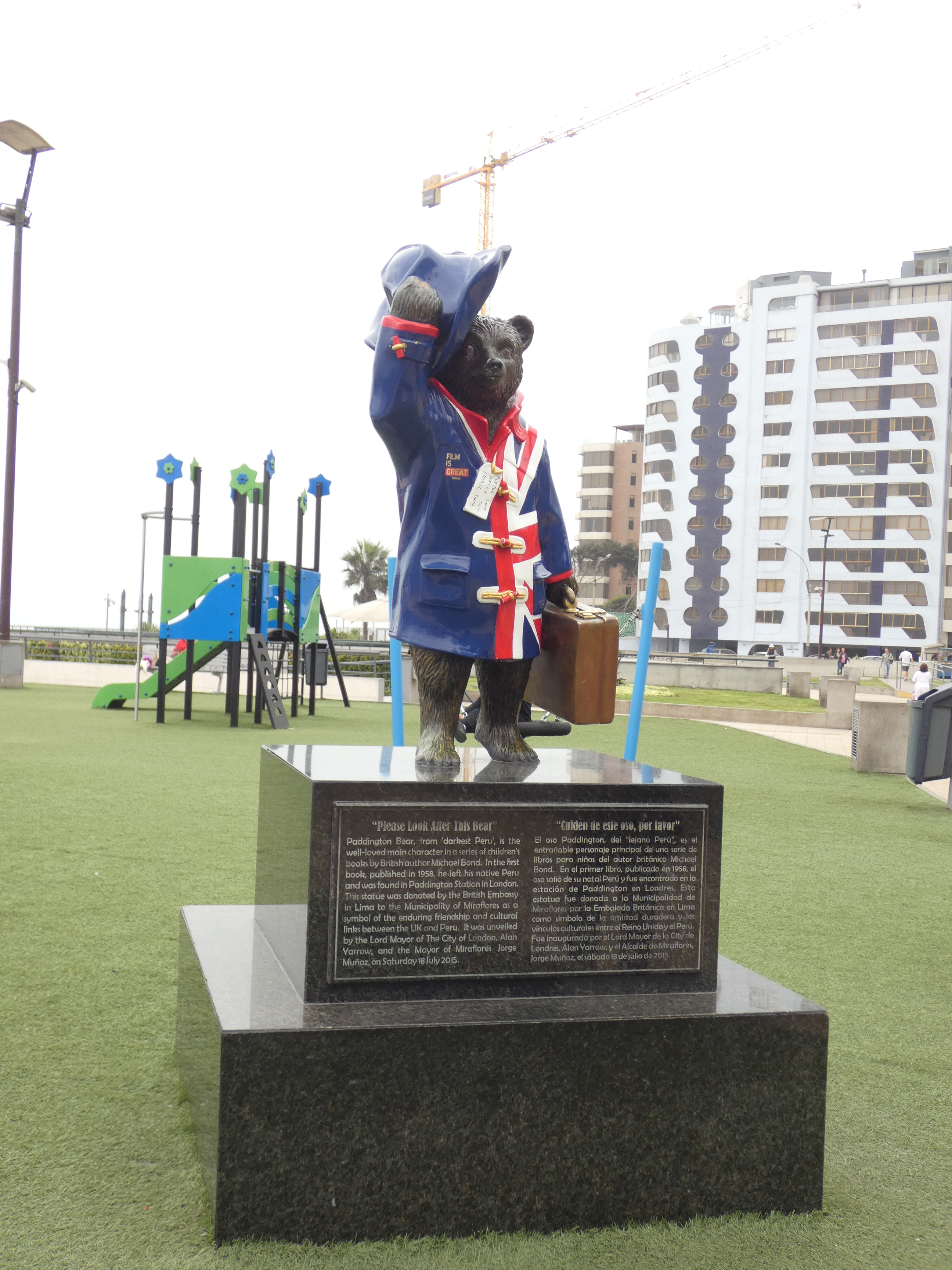 Statue of the bear Paddington in Parque Alfredo Salazar, Miraflores, Lima, Peru. The writing on the statue says in English and Spanish; “Please Look After This Bear” Paddington Bear from “darkest Peru”, is the well-loved main character in a series of children’s books by British author Michael Bond. In the first book, published in 1958, he left his native Peru and was found in Paddington Station in London. This statue was donated by the British Embassy in Lima to the Municipality of Miraflores as a symbol of the enduring friendship and cultural links between the UK and Peru. It was unveiled by the Lord Mayor of The City of London., Alan Yarrow and the Mayor of Miraflores Jorge Muñuz, on Saturday 18 July 2015. “Cuiden de este oso, por favor” El oso Paddington, del “lejano Perú”, es el entrañable personaje principal de una serie de libros para niños del autor británico Michael Bond en 1958, el oso salió de su natal Perú y fue encontrado en la estación de Paddington en Londres. Esta estatua fue donada a la Municipalidad de Miraflores per la Embajada Británica en Lima como símbolo de la amistad duradera y los vínculos culturales entre el Reino Unido y el Perú. Fue inaugurada por le Lord Mayor de la City de Londres, Alan Yarrow y el Alcalde de Miraflores Jorge Muñoz, el sábado 18 de julio de 2015.